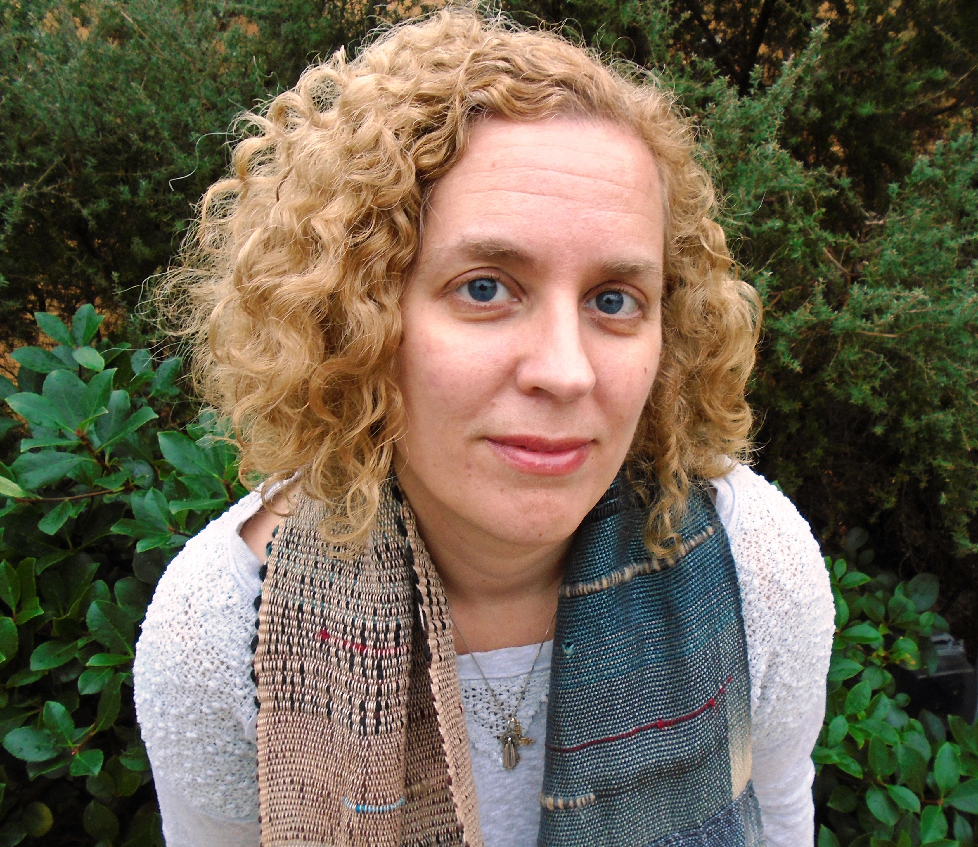 Head shot